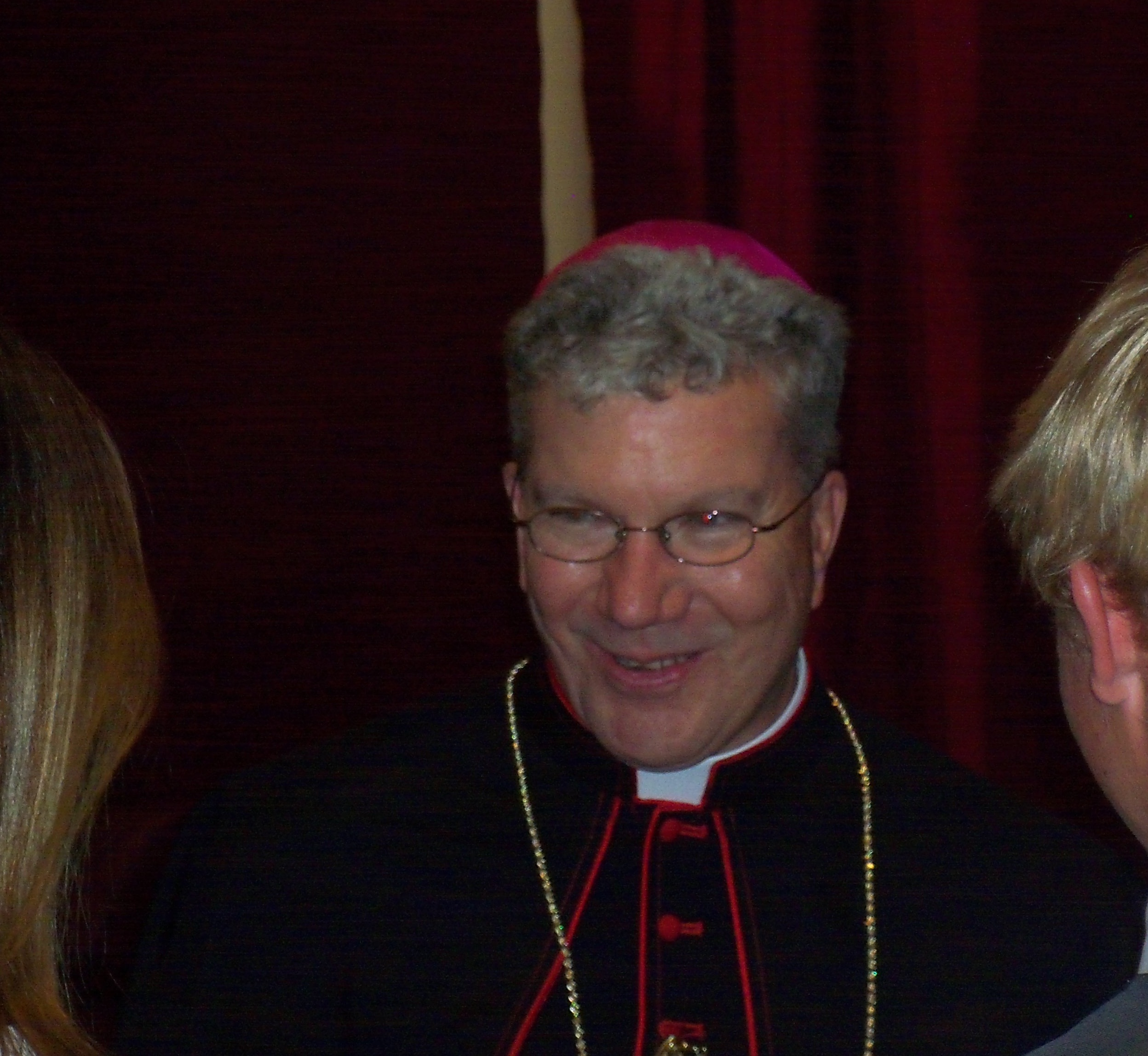 Jeffrey Marc Monforton Bishop of Roman Catholic Diocese of Steubenville greets the public after consecration